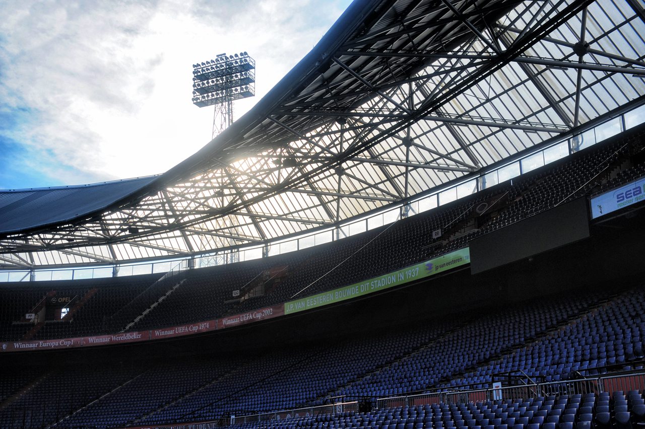 Stadion Feijenoord (De Kuip) in Rotterdam, the Netherlands